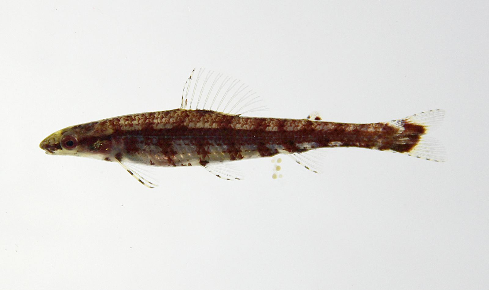 Ammocryptocharax sp.